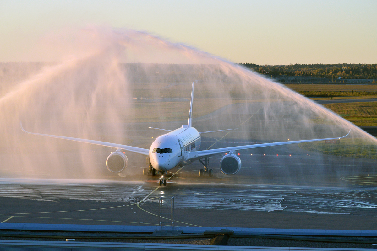 Finnair, OH-LWA, Airbus A350-941